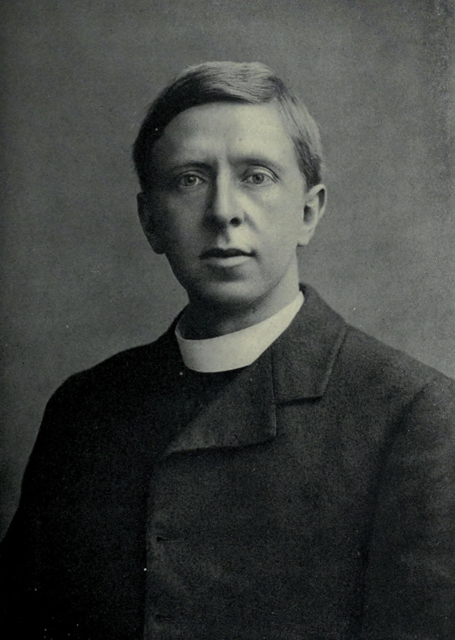 Robert Hugh Benson, Aged 35.